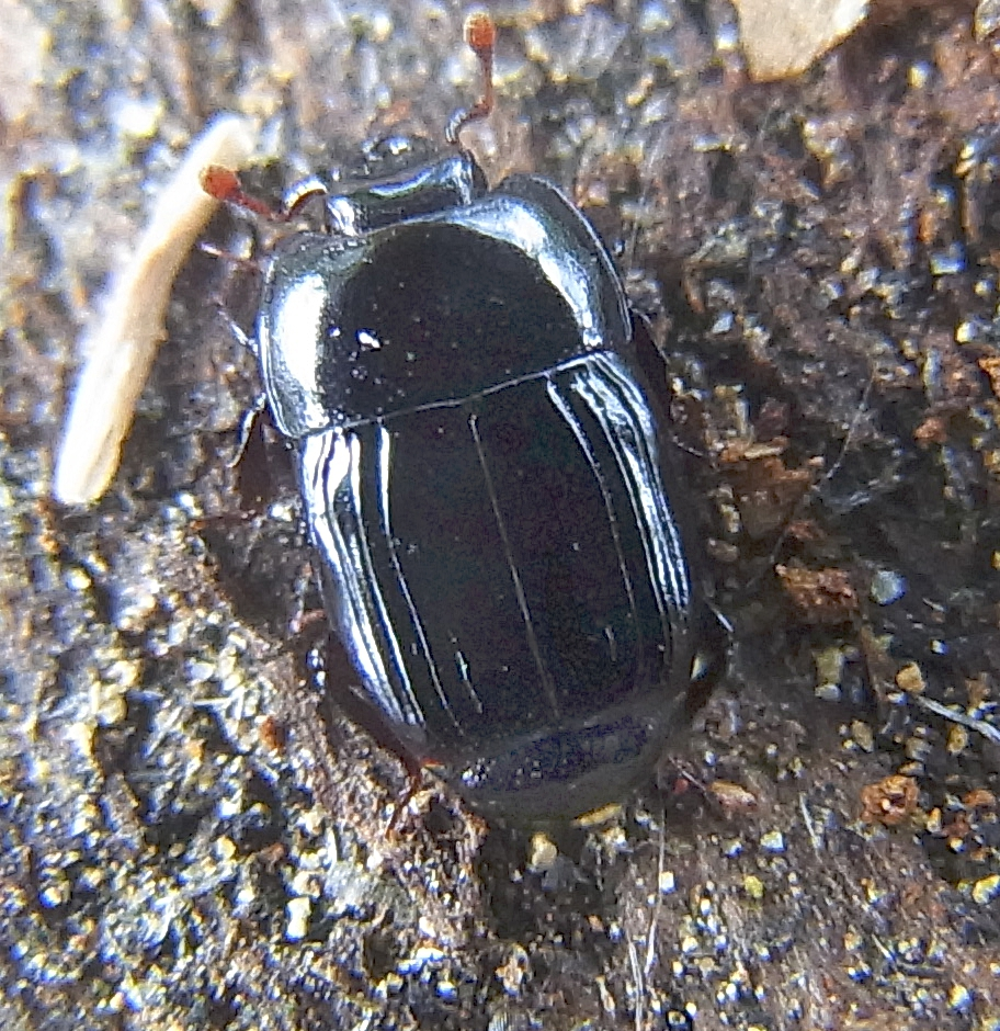 Platysoma compressum from Hungary, Mátra-mountains, Mátrahàza, under bark of beech at 2015-06-26